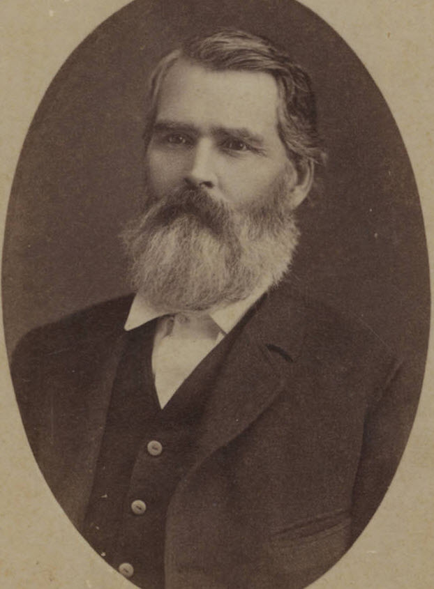 George Robertson Reeves photo from time as Speaker of the House of Texas, 1881